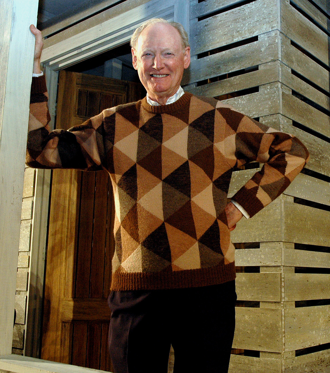 Photograph of composer Kirke Mechem on the set of his opera "John Brown" in Kansas City, MO April 23, 2008. Photo taken by Bill Blankenship. Used by permission of the photographer: "The attached photo of Kirke Mechem on the set of his opera "John Brown" at the Lyric Opera of Kansas City may be used in the public domain provided it is credited to its source, Bill Blankenship/The Topeka Capital-Journal. It is not copyrighted."